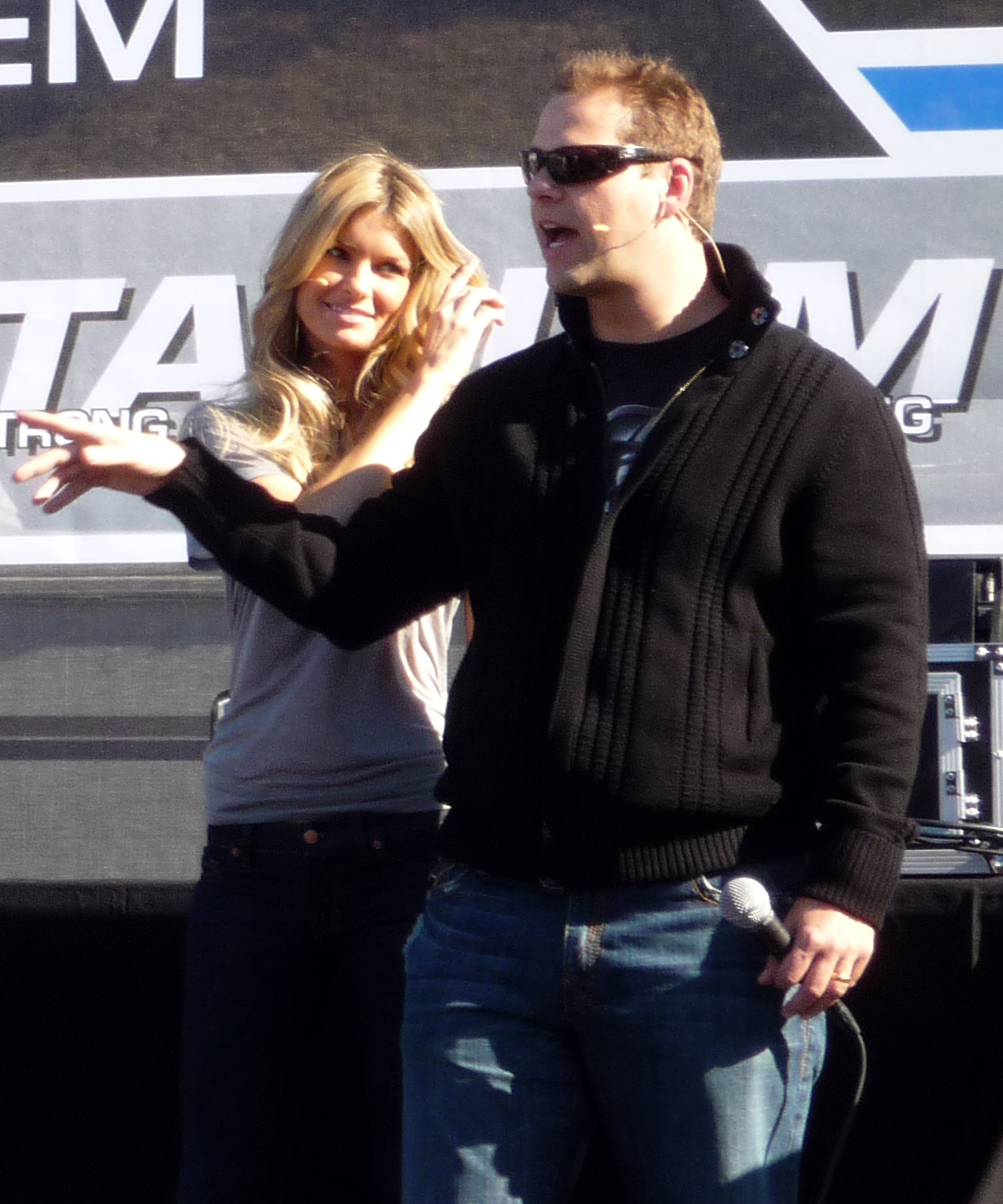 Chris Rose sports journalist, with model Marisa Miller.